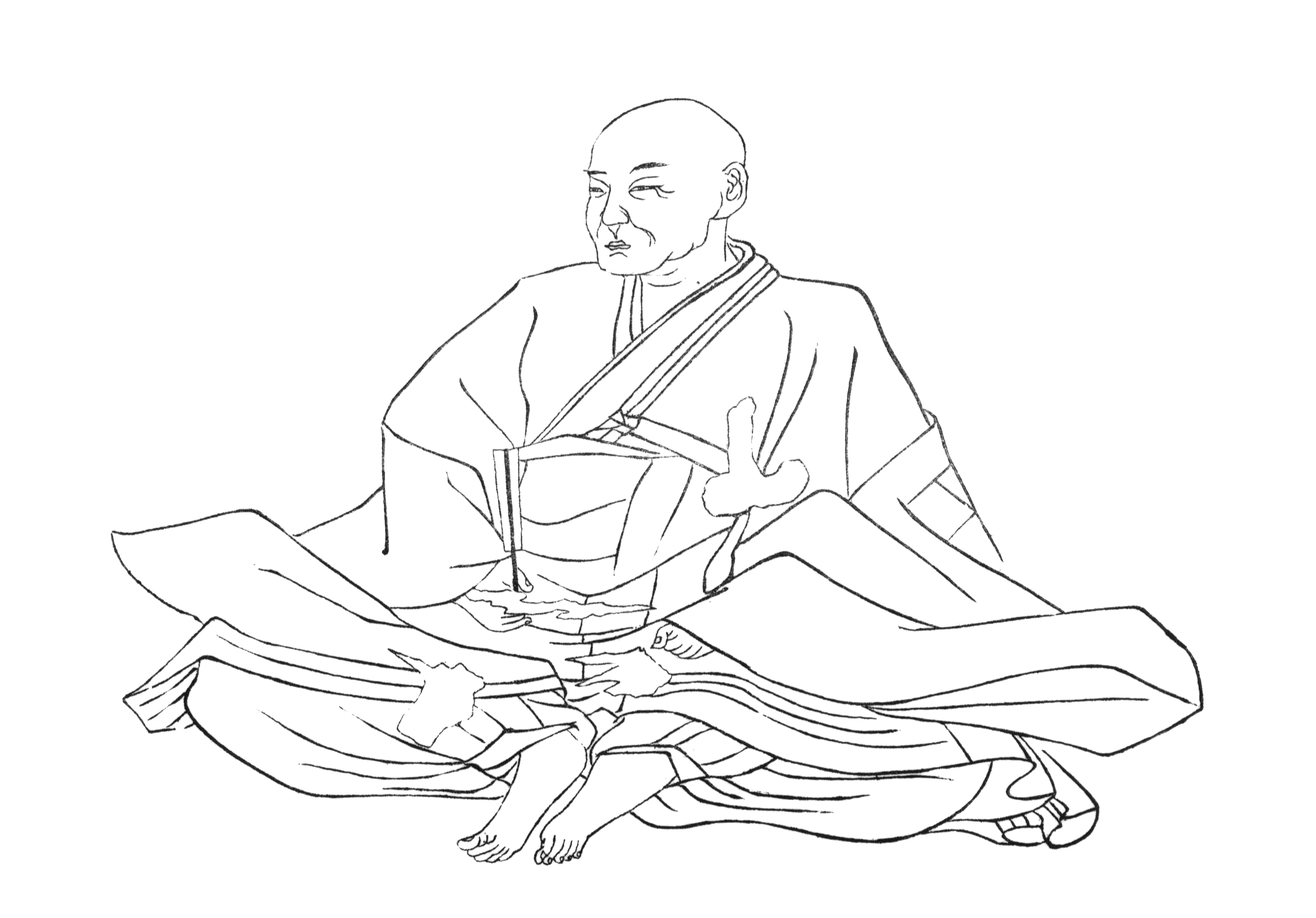 Portrait of Utsunomiya Kagetsuna